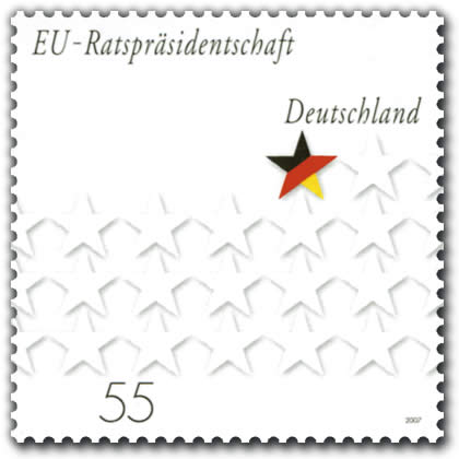 Germany is assuming the Presidency of the European Council Ausgabepreis: 55 Cent